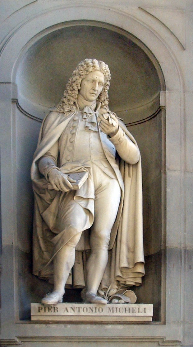 Statues in the Uffizi outside Gallery Famous florentine. See title description